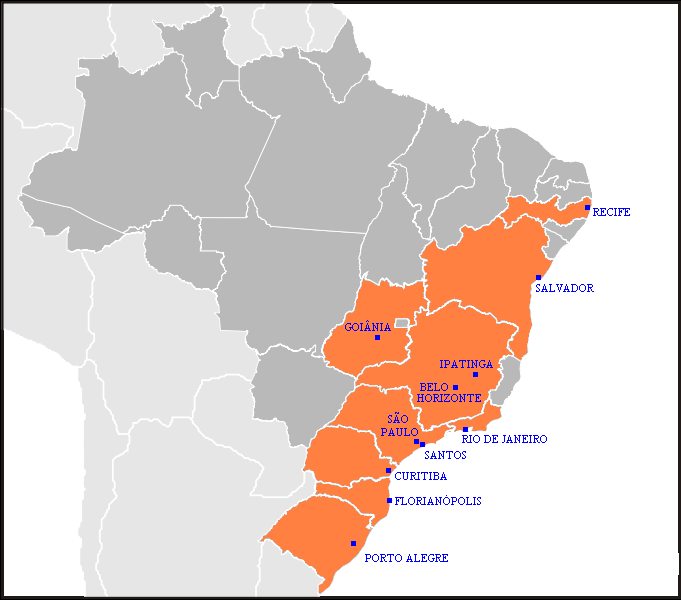 map of the cities with teams at the Brazilian Football (Soccer) Championship.